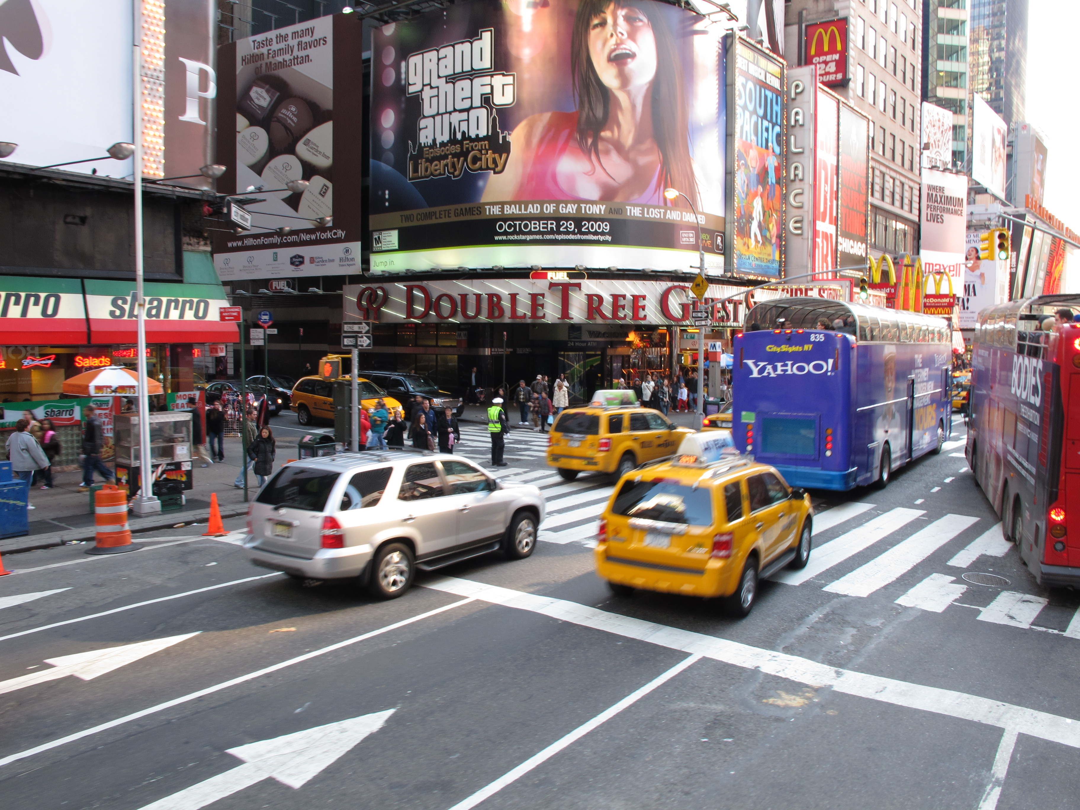 Manhattan, New York City